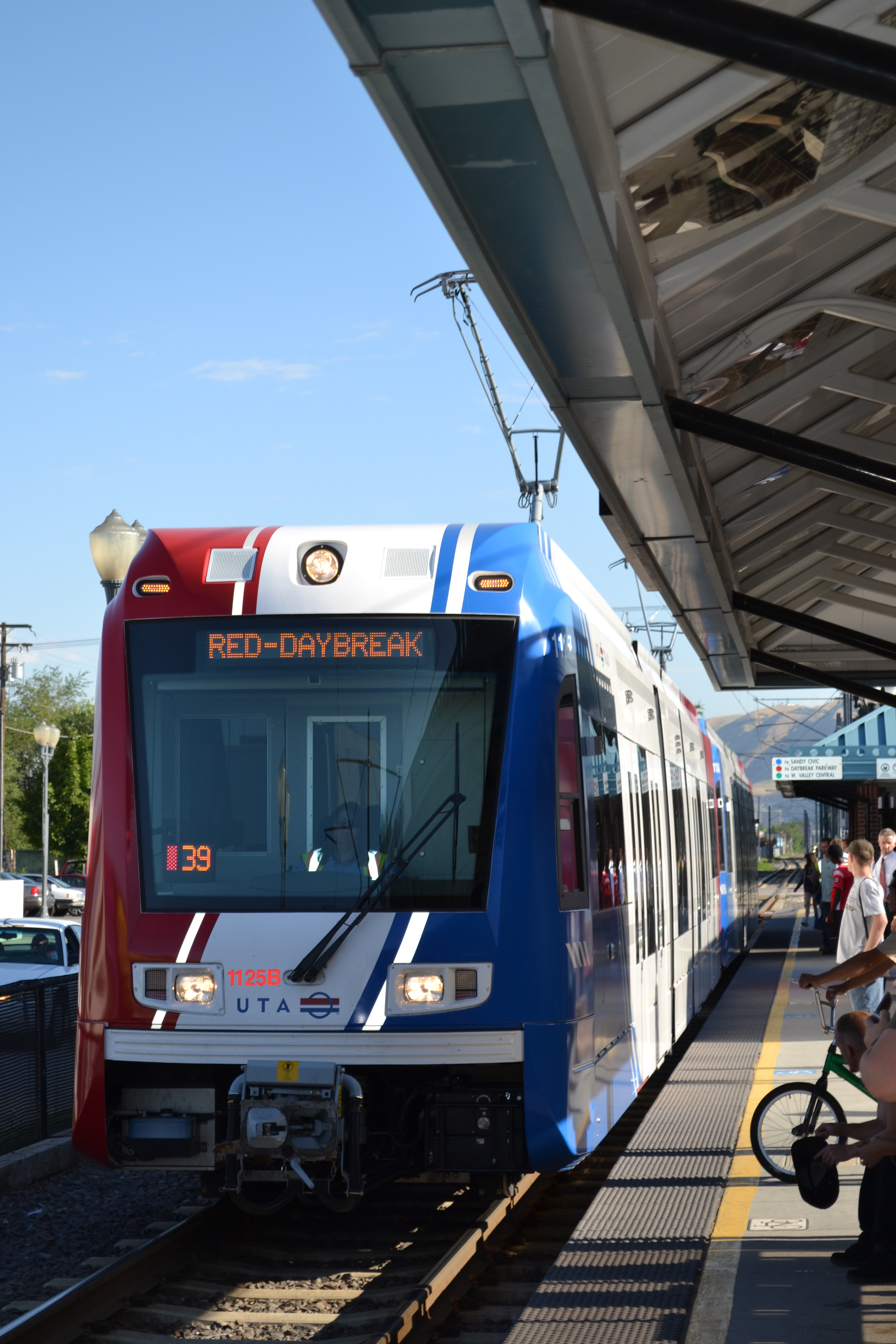 A Utah Transit Authority Trax light rail vehicle traveling south on the red line in Salt Lake City. The LRV is a Siemens S70.